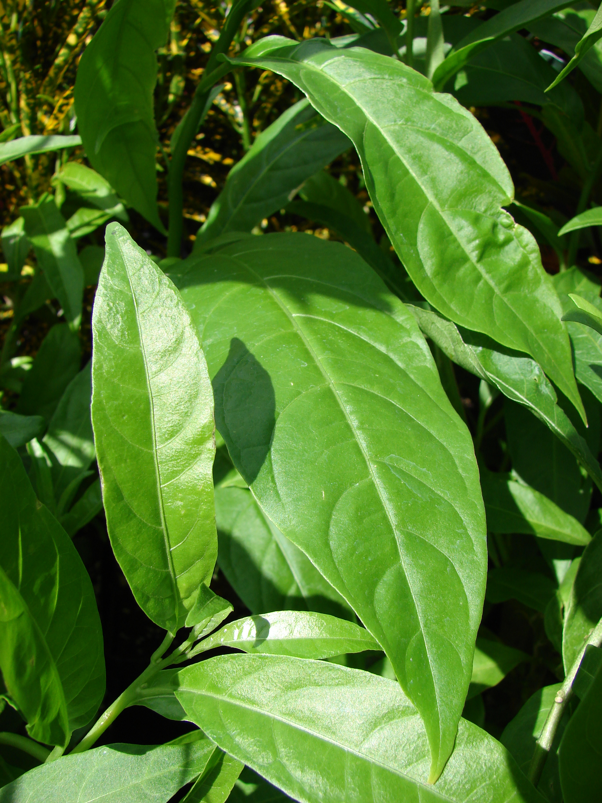 Cestrum nocturnum (leaves). Location: Maui, Home Depot Nursery Kahului